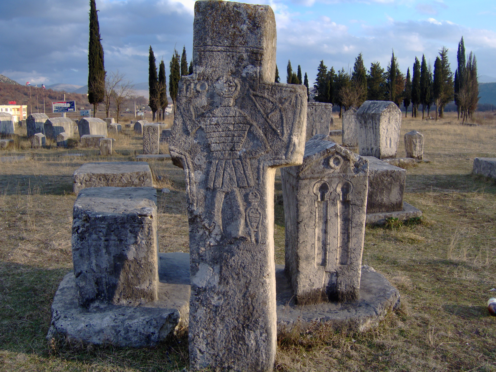 Bosnia and Herzegovina, Radimlja necropolis